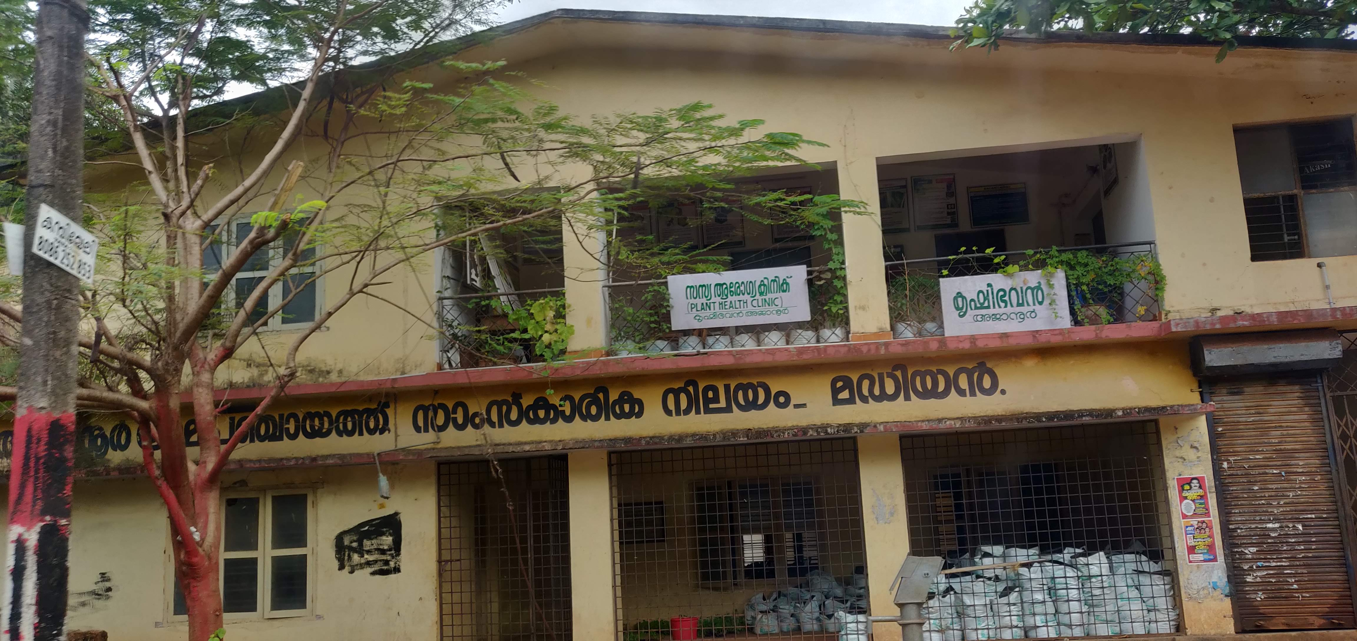 Ajanoor Grampanchayat Community Center, Madiyan, Kasaragod, Kerala, India